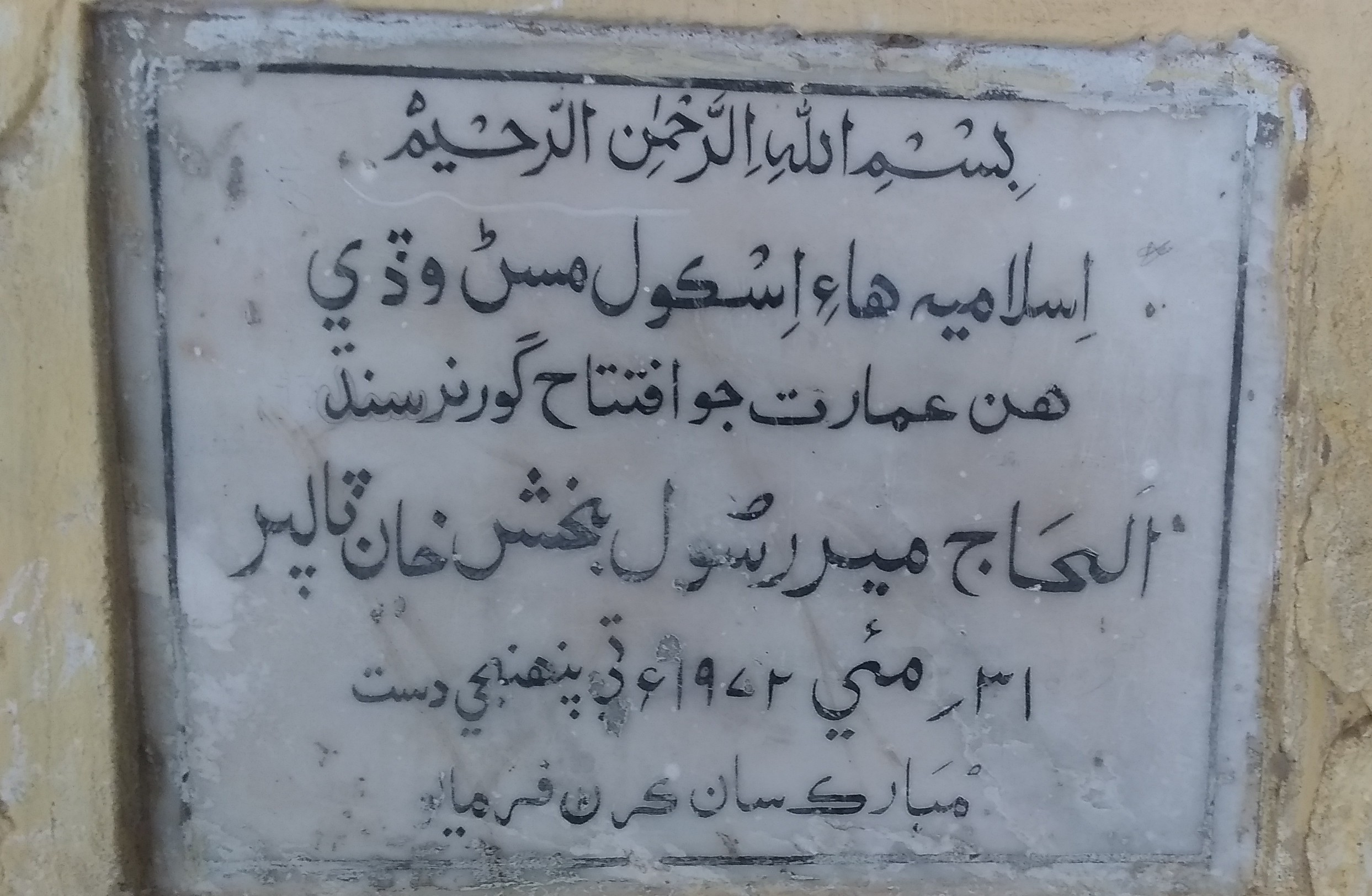 Aslamia Hi school